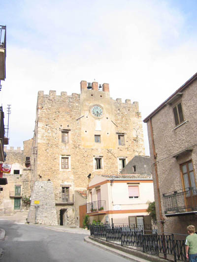 Castle in Marineo, Sicily